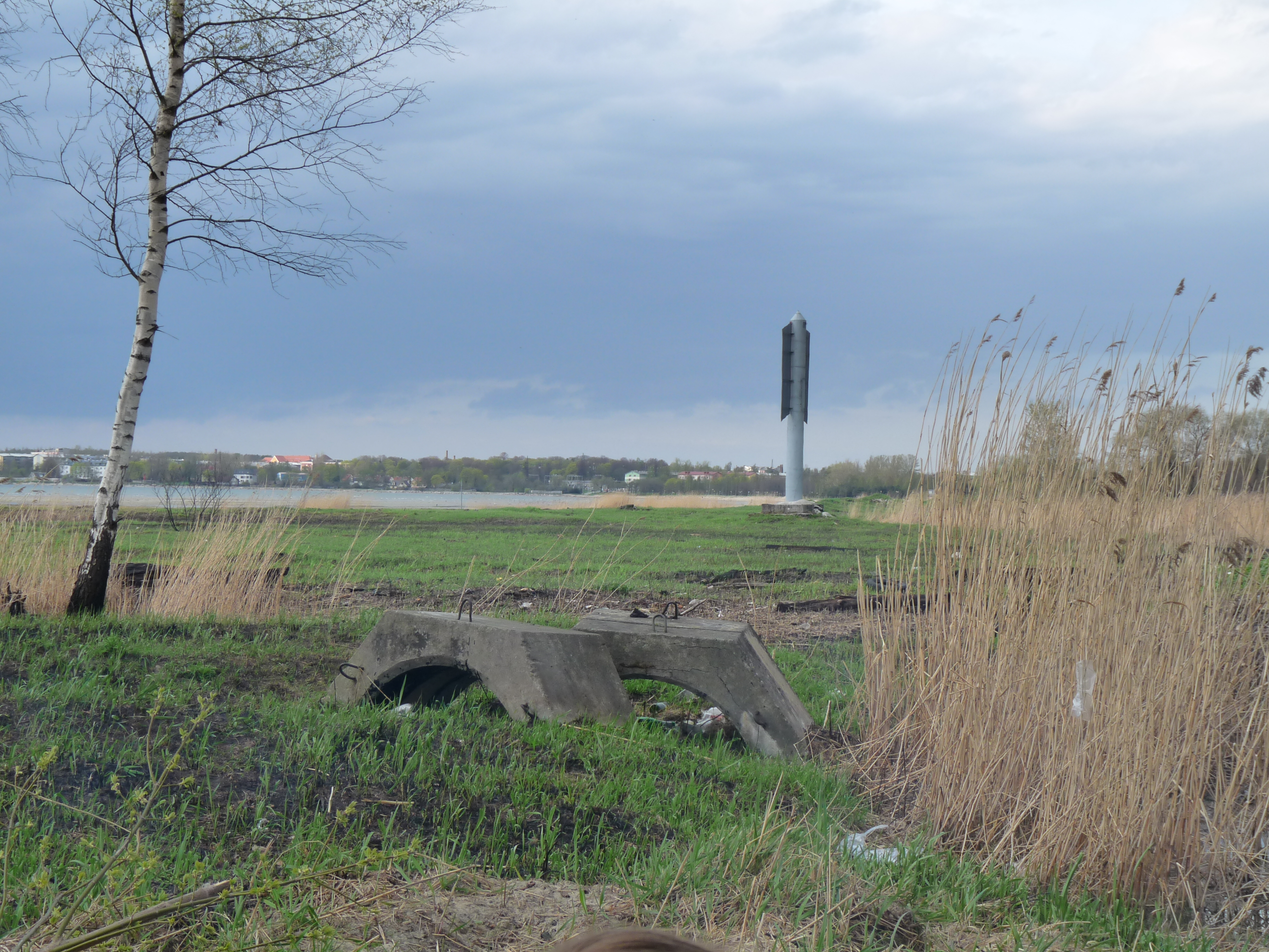 Kopli Bay front light beacon in Stroomi beach